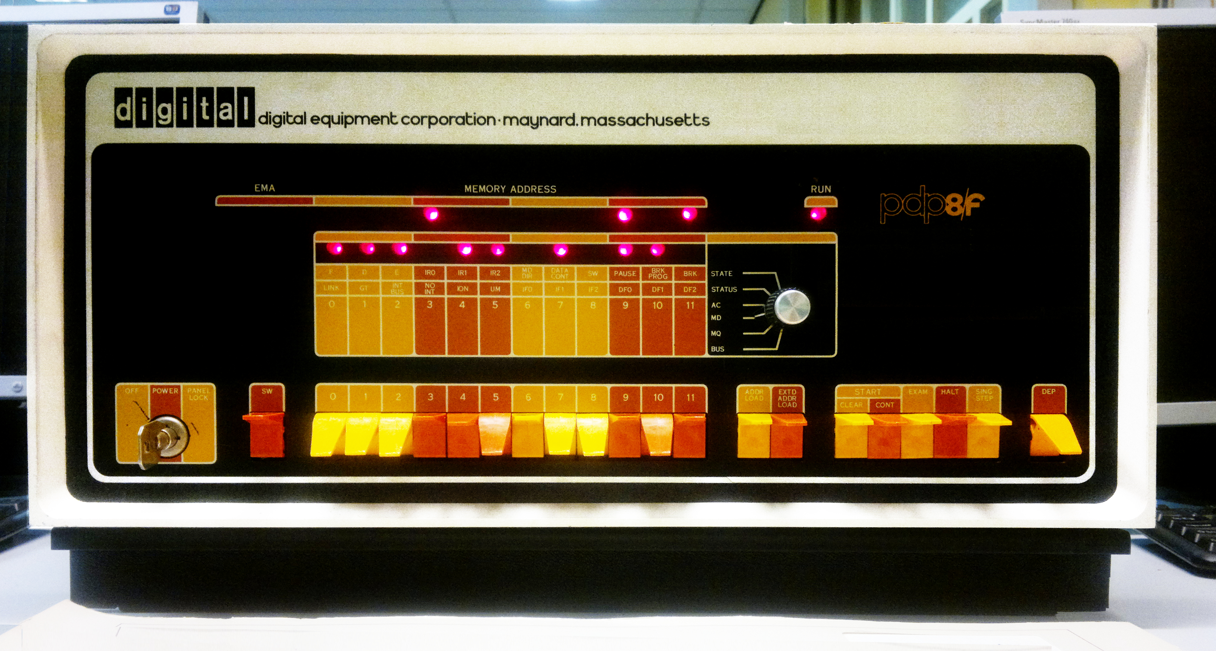 DEC PDP-8/F restored at original description Working after restauration at hack42.nl. more info at